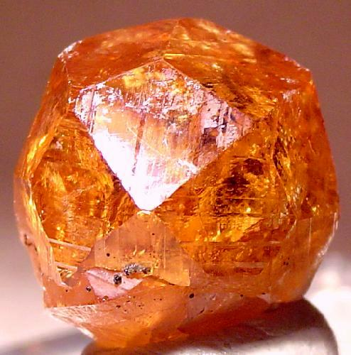 Grossular Locality: Jeffrey mine (Jeffrey quarry; Johns-Manville mine), Asbestos, Les Sources RCM, Estrie, Québec, Canada (Locality at ) A large, gorgeous and gemmy orange grossular garnet dodecahedron from the famous and now-closed Jeffrey Mine in Quebec, Canada. A bit of contacting on the back and very trivial edge damage is barely noticeable and in context to the size of this crystal is fairly trivial since it displays well from the front. Old dealer stock of Dr. Gary Hansen and not shown since the early 1980s! 1.8 x 1.7 x 1.7 cm